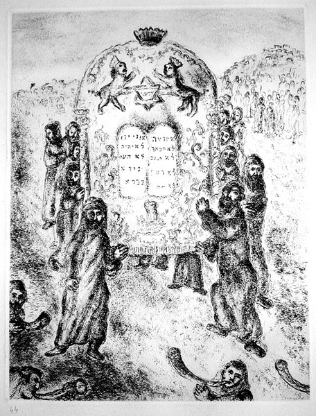 Marc Chagall Bible Etching